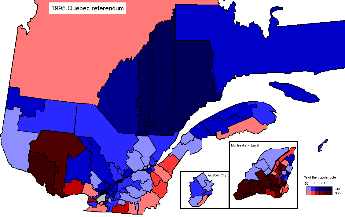 Map of the 1995 referendum by provincial riding. Red colours indicate No votes, blues indicate Yes votes, with darker hues indicating higher percentages.